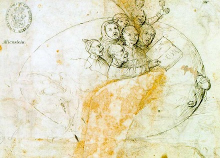 Reverse of a two-sided drawing. For the front, see File:Possibly Jheronimus Bosch 003 recto 01.jpg.